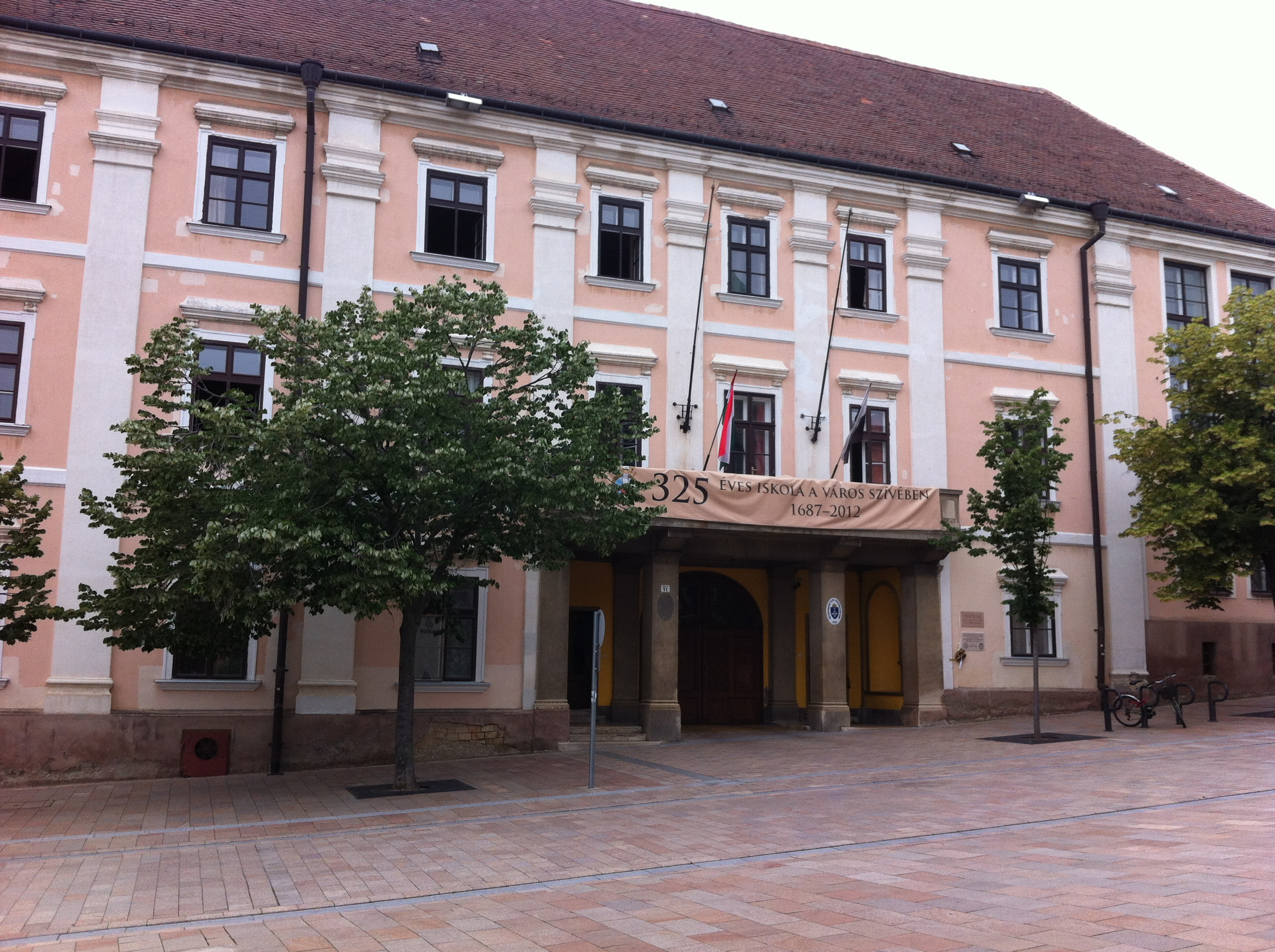 Nagy Lajos High School, Pécs, Hungary